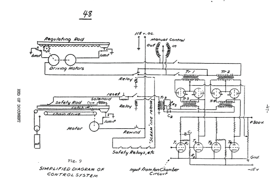 This schematic of the Chicago Pile's rod control circuitry, including the shutdown, or "SCRAM" line, was completed shortly after the reactor at the University of Chicago went critical in 1942.